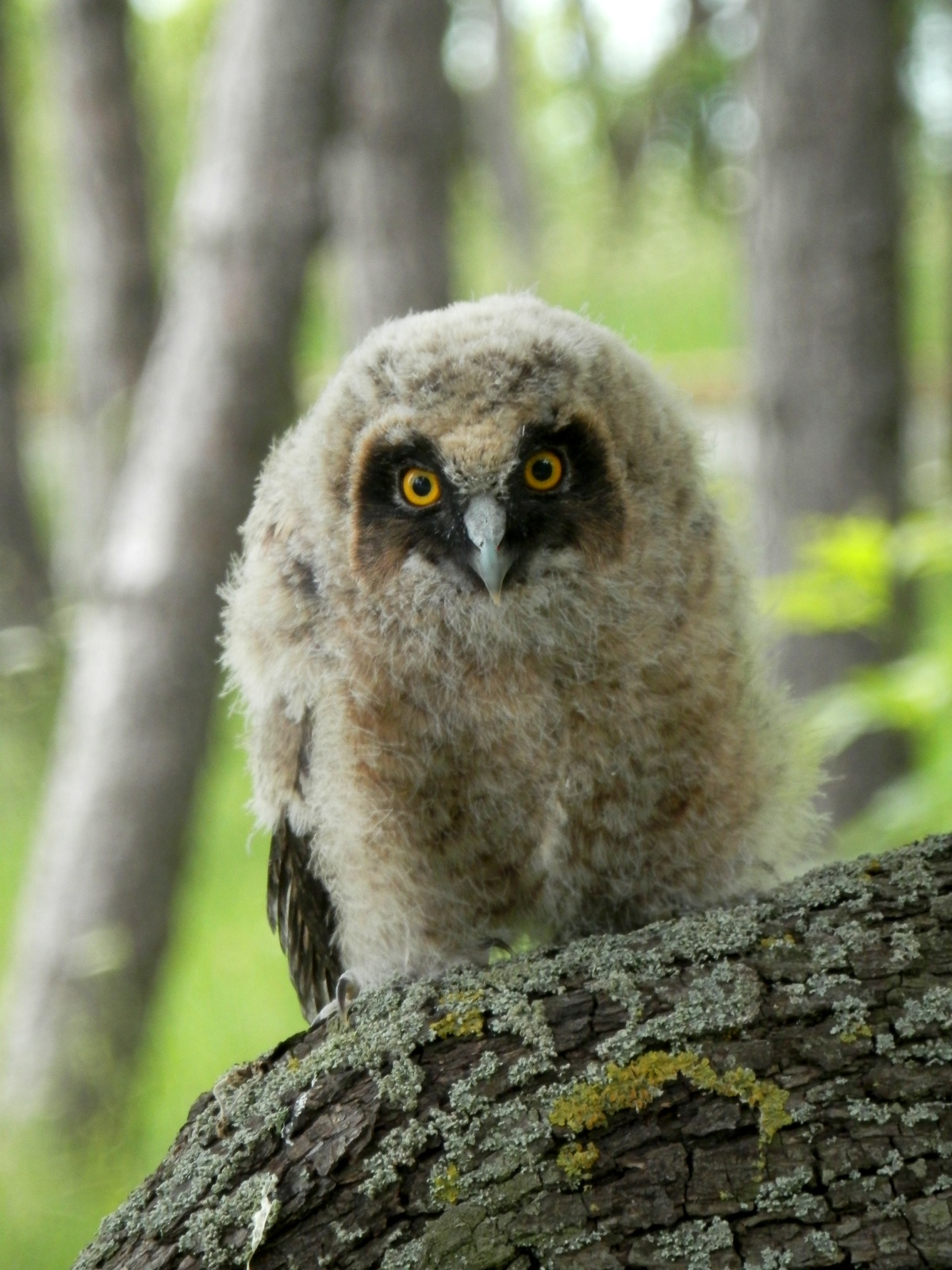 Long-eared owl - Asio otus